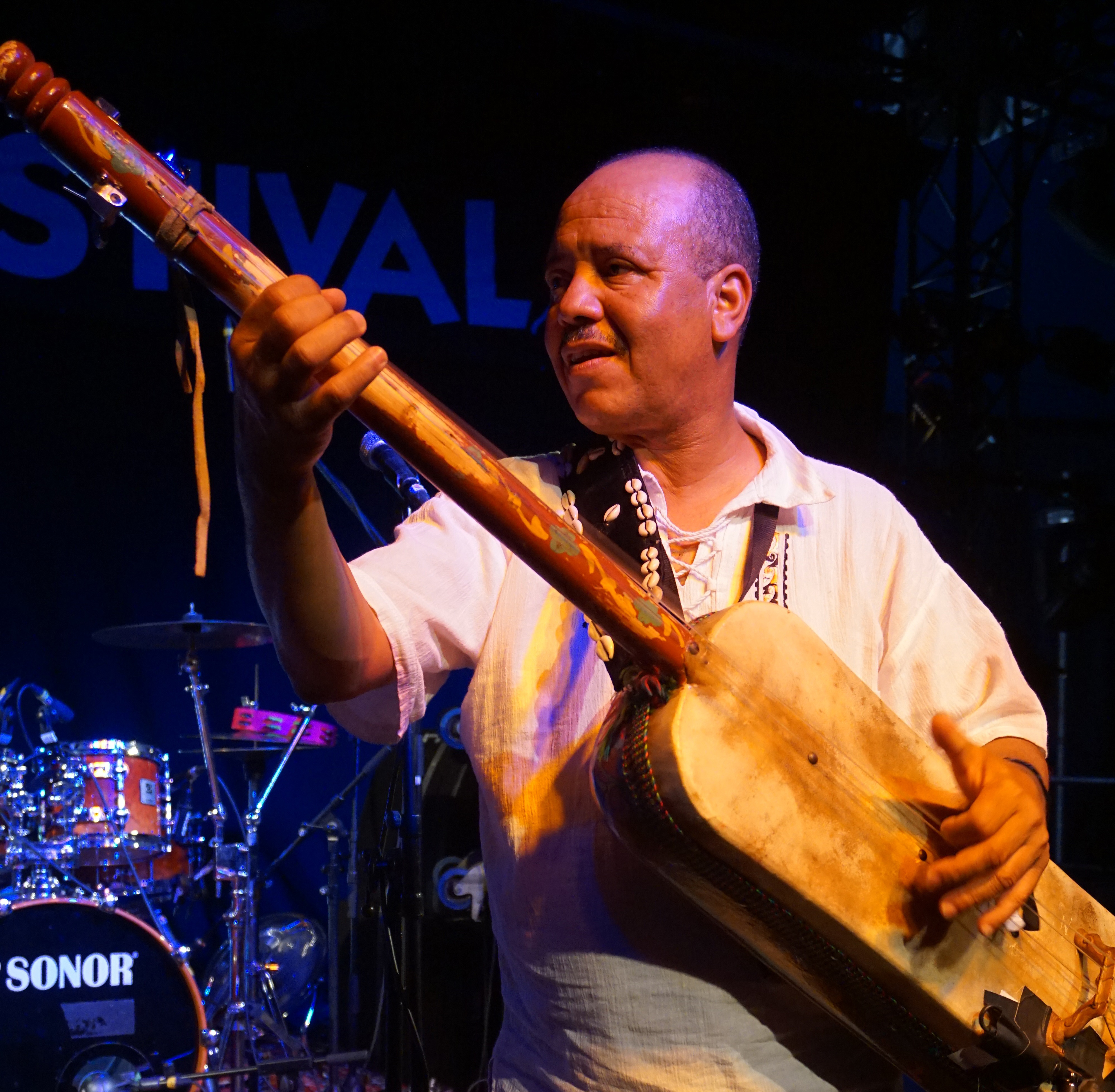 Majid Bekkas - Musican from Morrocco